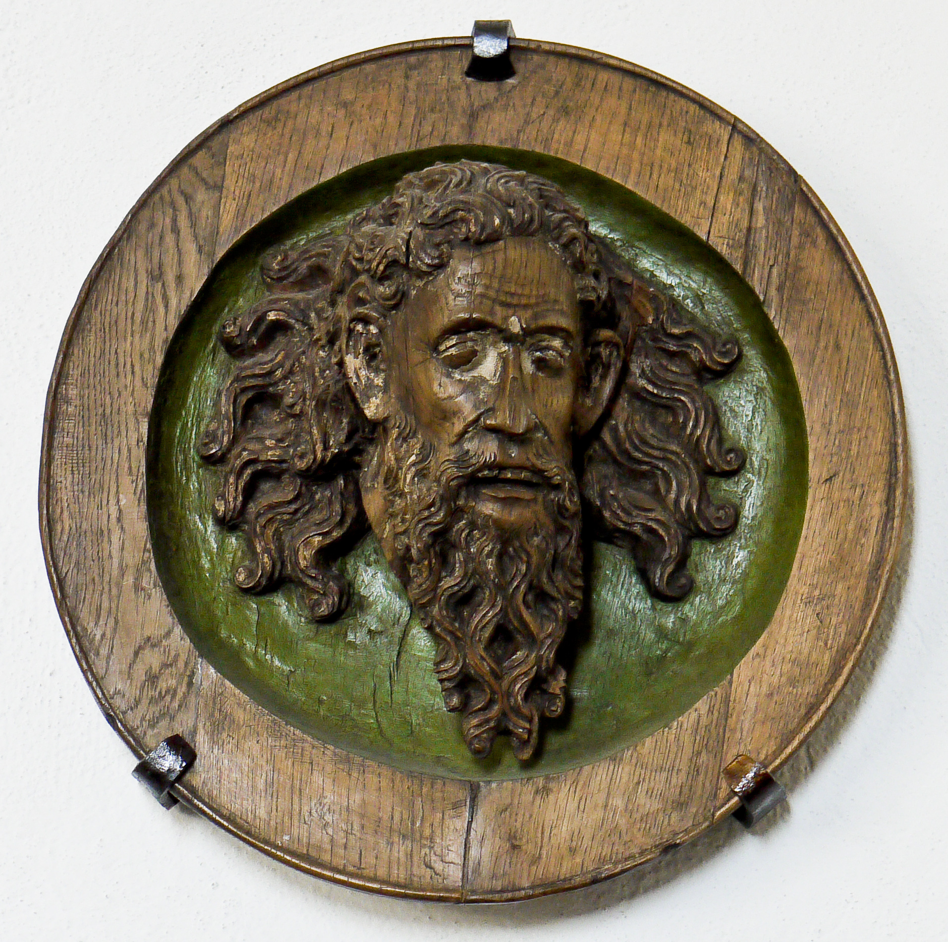 Skellefteå landsförsamlings kyrka, Diocese of Luleå, Skellefteå, Sweden. John Baptist´s head on a plate (oak). Middel of 15th century. Artist unknown.